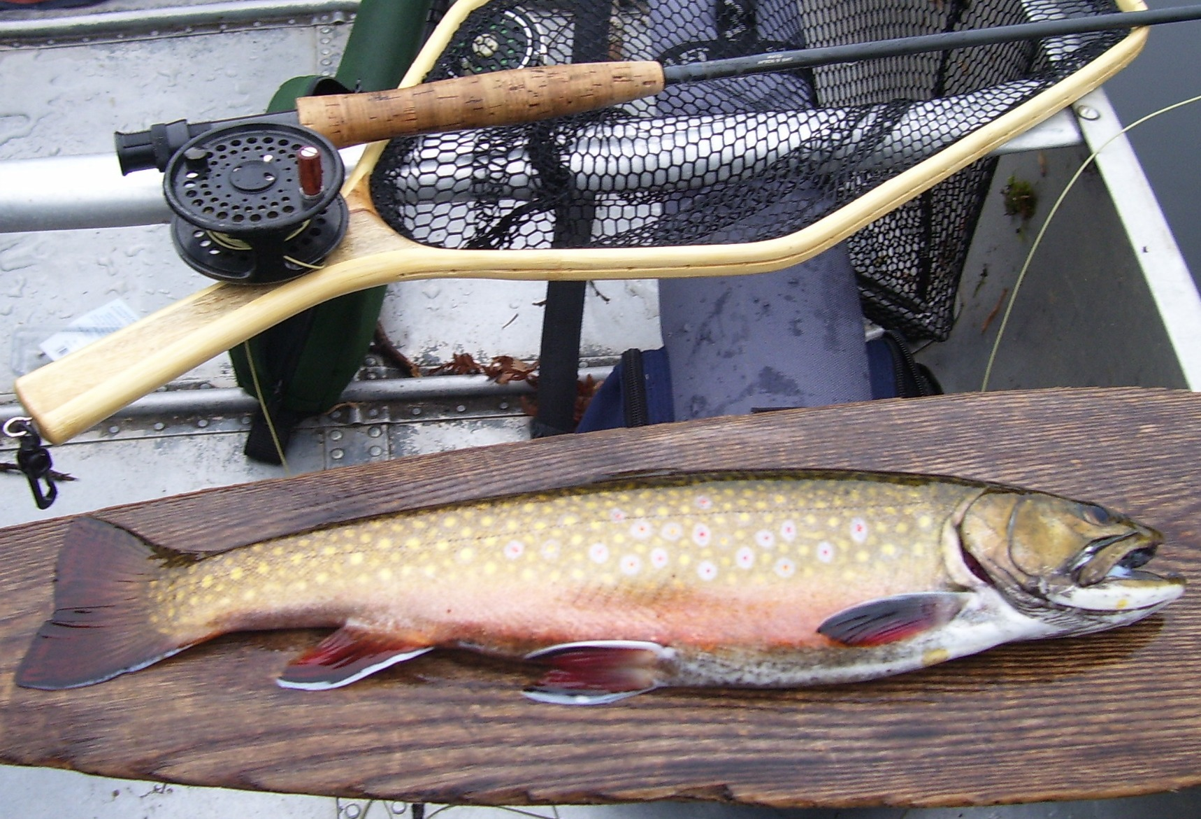 Colorful brook trout (brookie) caught on Enchanted Pond in June of 2007 while at Bulldog Camps.